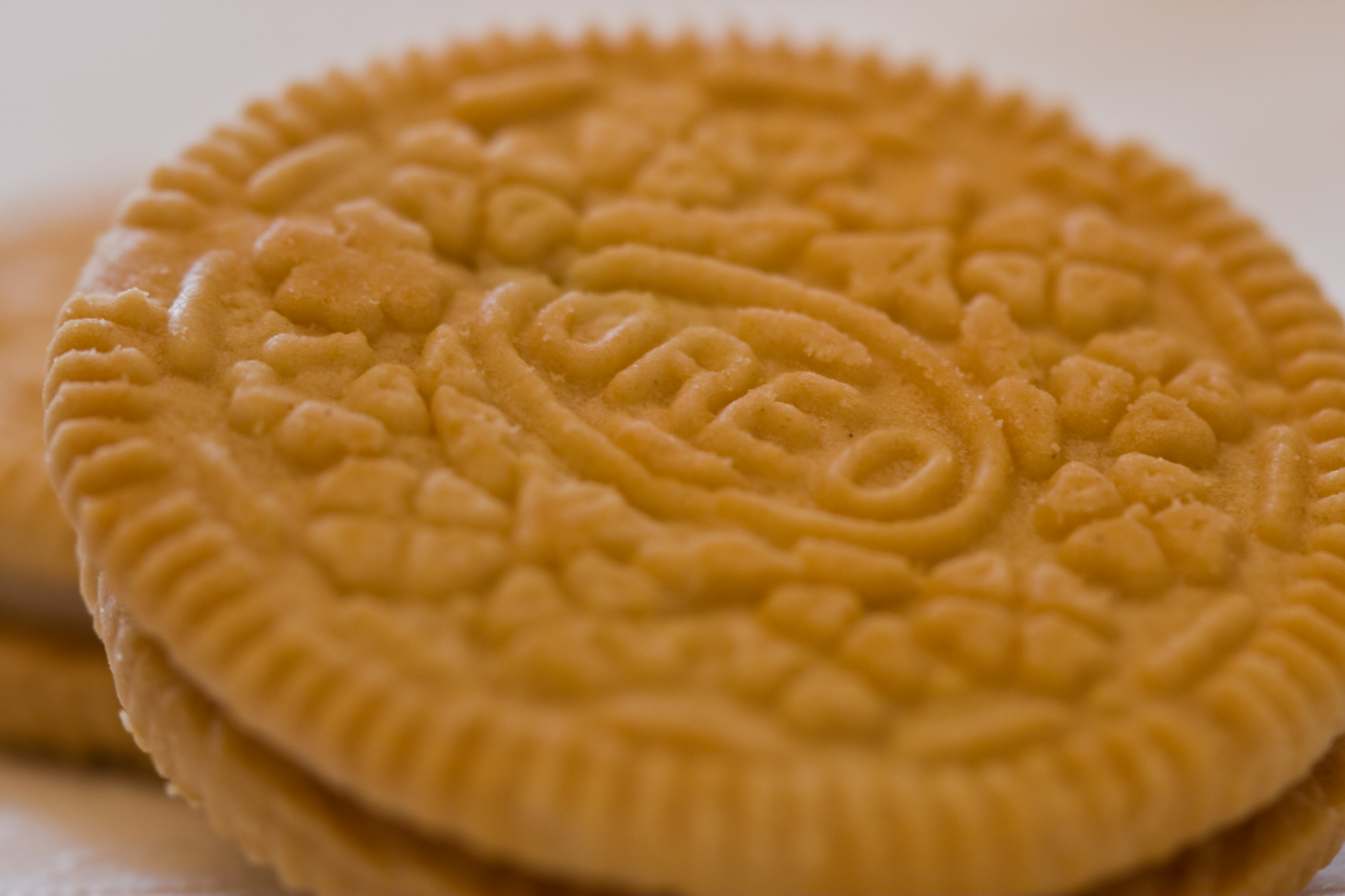 I got to try these vanilla cream oreos and they were pretty good! I haven't had an oreo in so long!